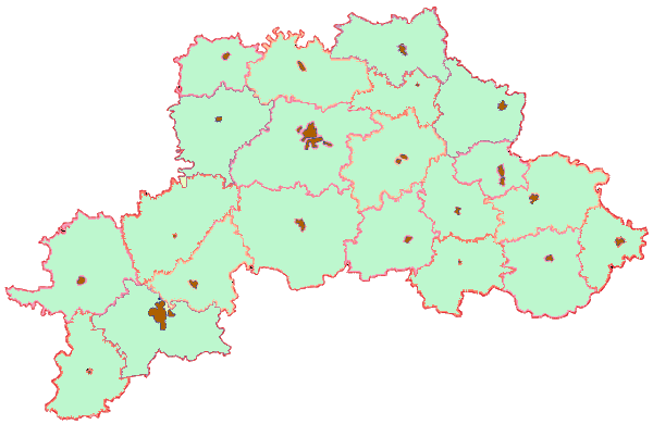 Mogilev Region map by Al Silonov, adapted from Media:Mogilev-Oblast-Krichev.png by User:DDima.